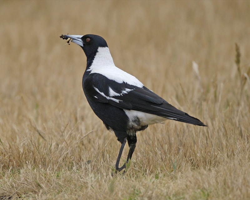 Australian Magpie in Melbourne, Australia with a worm in its beak.. ssp Gymnorhina tibicen tyrannica (white backed Magpie group). Photographed at Trin Warren Tam-boore, Royal Park, Melbourne, Australia on 8 November 2008.